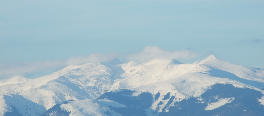 Peek Ineu (2227m), Rodna Mountains, Romania - view from Tihuţa